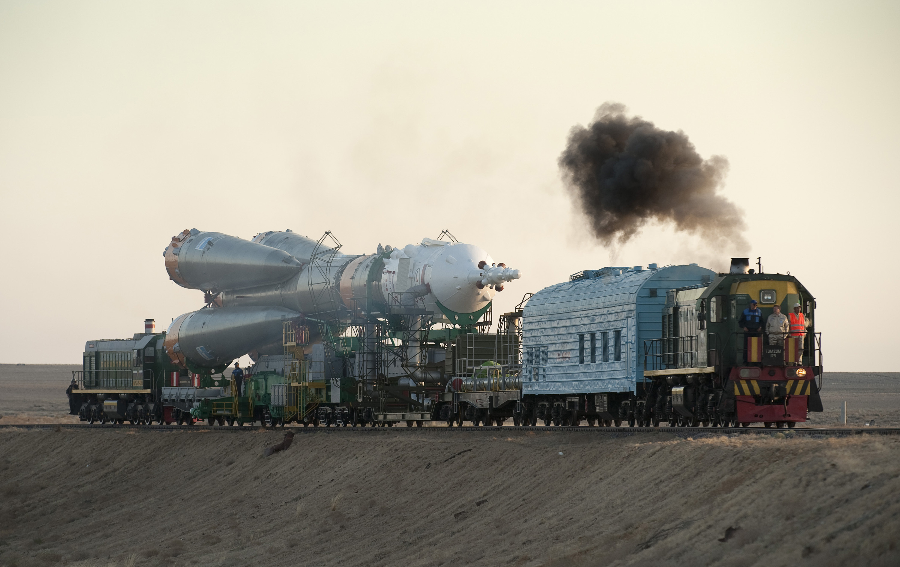 The Soyuz rocket is rolled out to the launch pad Monday, Sept. 28, 2009 at the Baikonur Cosmodrome in Kazakhstan. The Soyuz is scheduled to launch the crew of Expedition 21 and a spaceflight participant on Sept. 30, 2009.